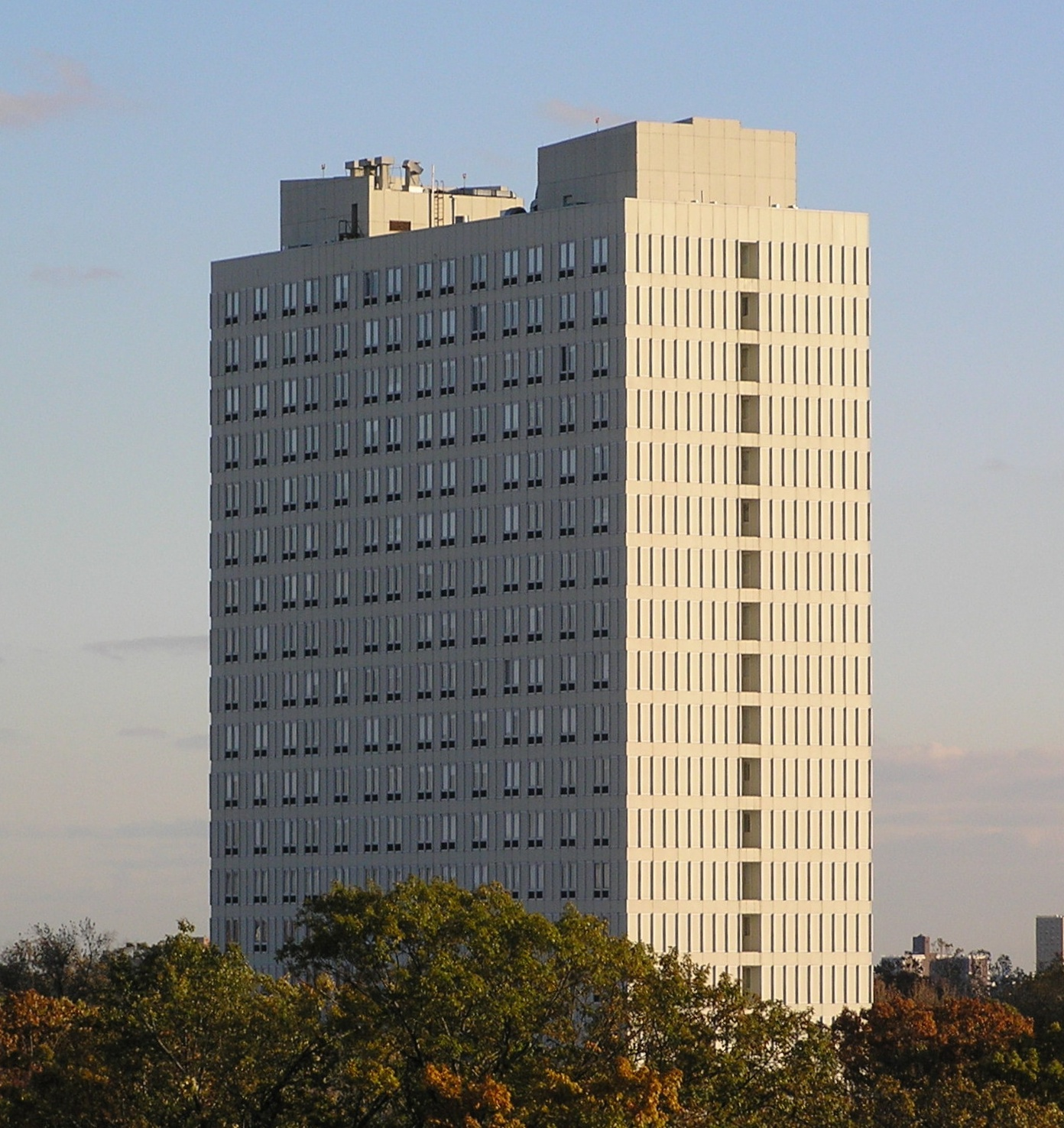 The Russian Mission in Riverdale. The mission is located on Mosholu Avenue near the public library. Mosholu Avenue is not to be confused with Mosholu Parkway.